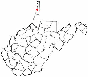 Adapted from Wikipedia's WV